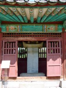 Temple in Vĩnh Tomb, Thanh Hoa, Vietnam.